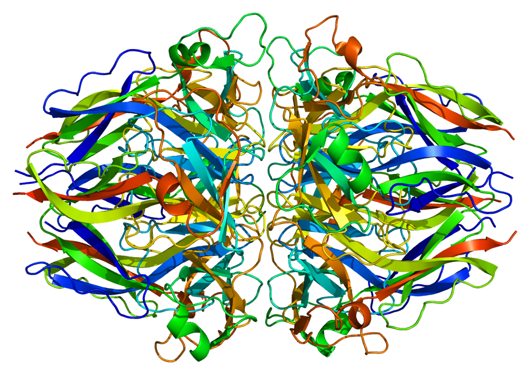 Structure of the COL4A1 protein. Based on PyMOL rendering of PDB 1li1.